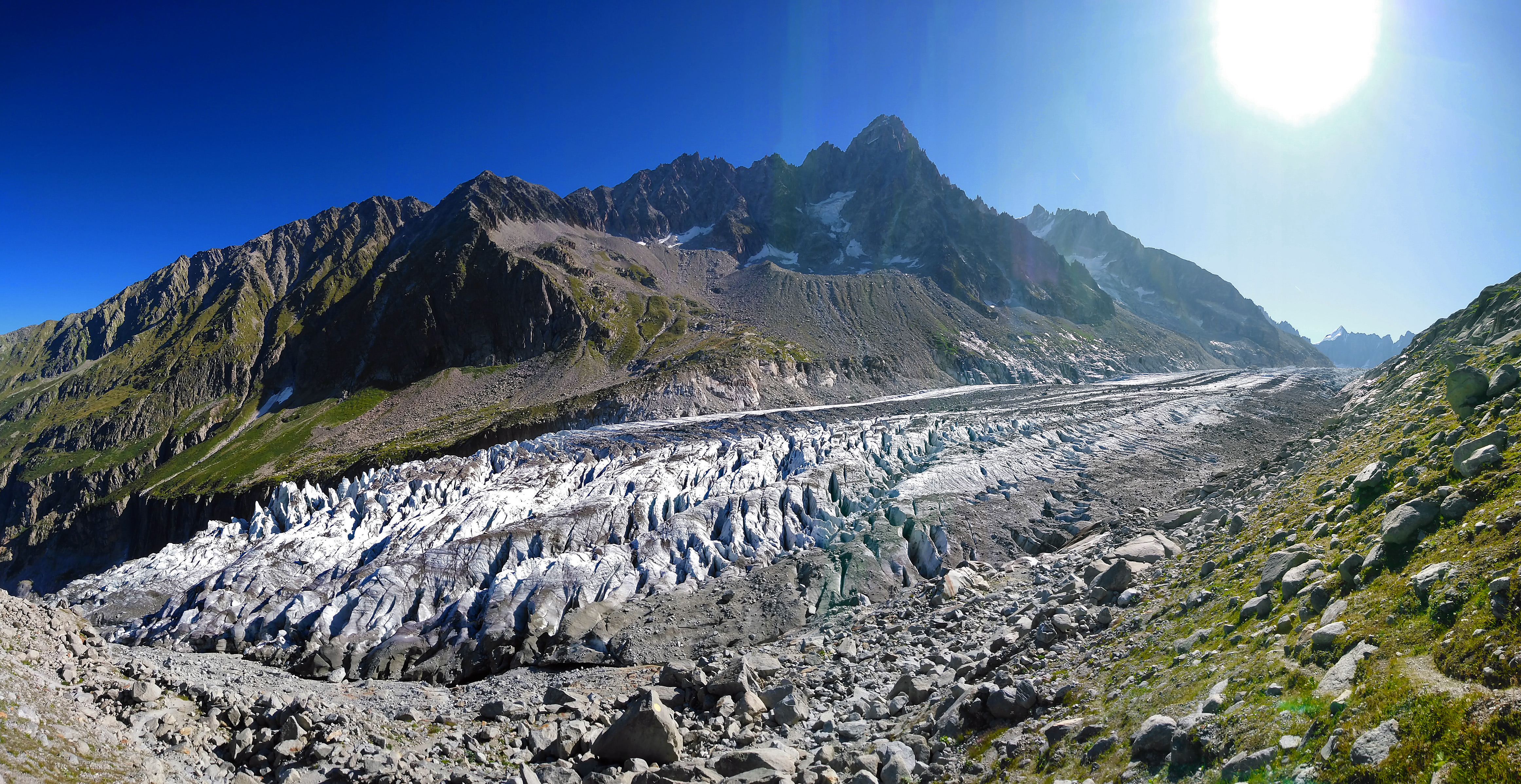 Argentière Glacier and Aiguille du Chardonnet in Chamonix, France.